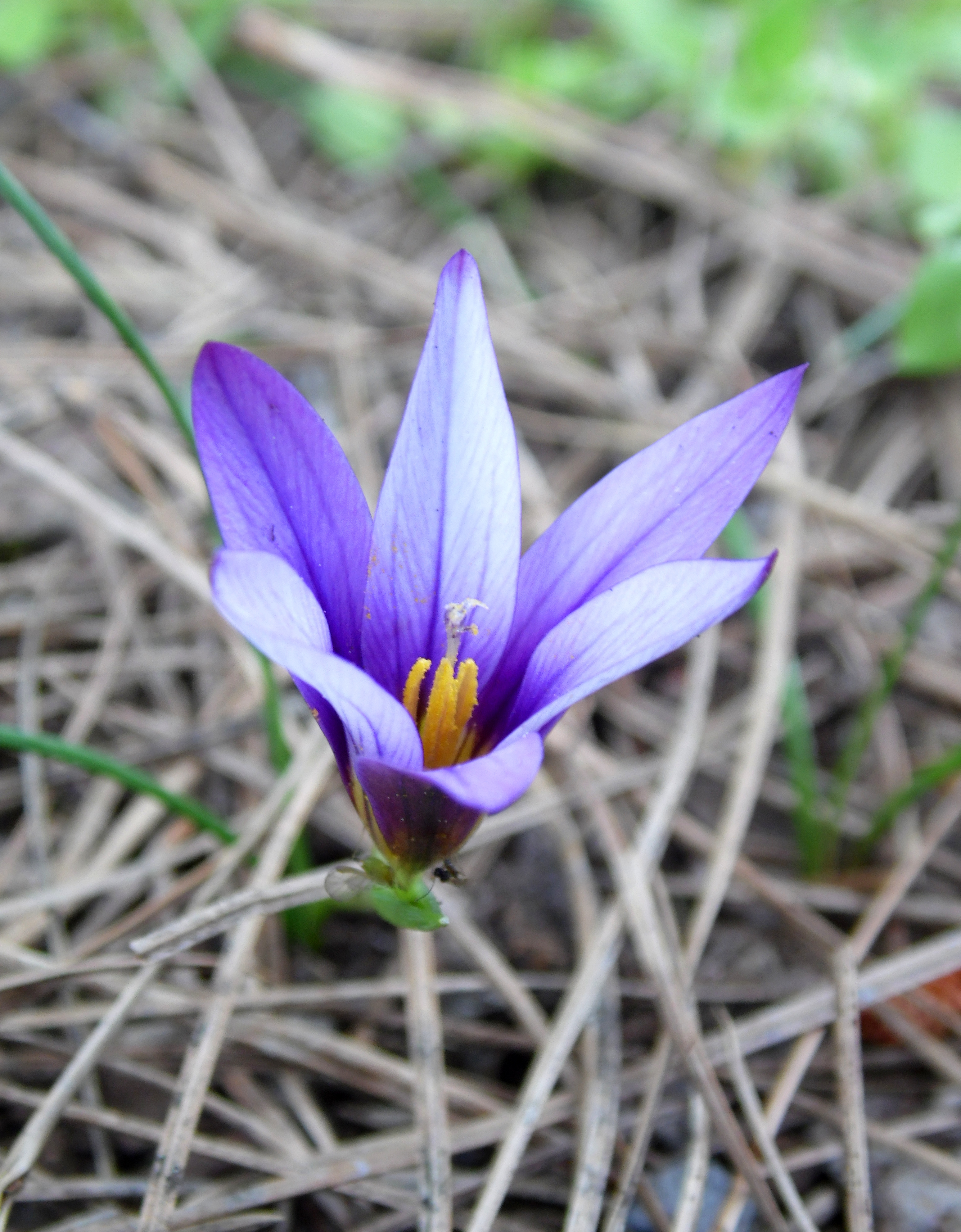 Romulea bulbocodium, Llanos Ana la Paz, near Pico de Los Nieves, Gran Canaria